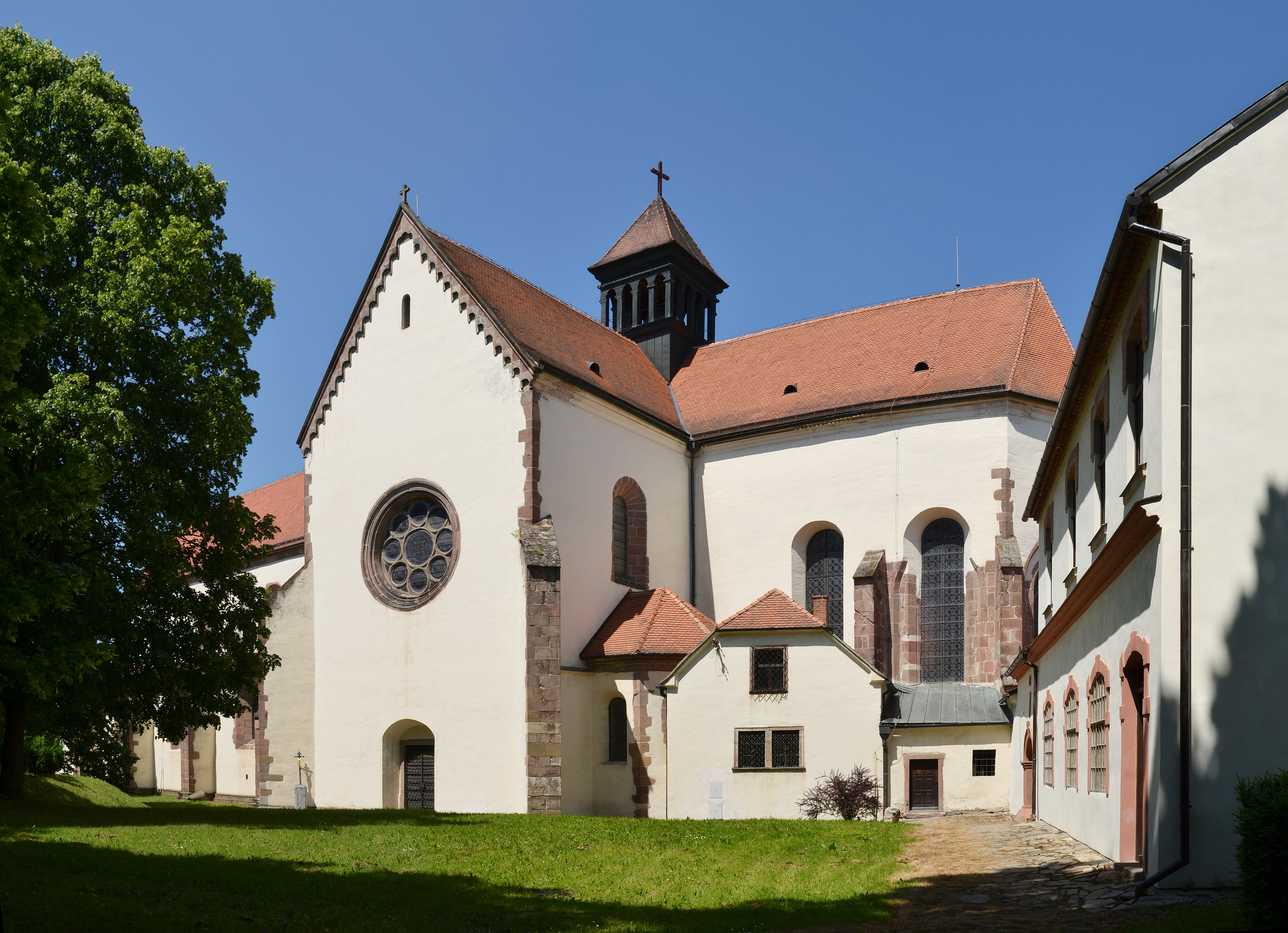 Porta Coeli Monastery, Moravia